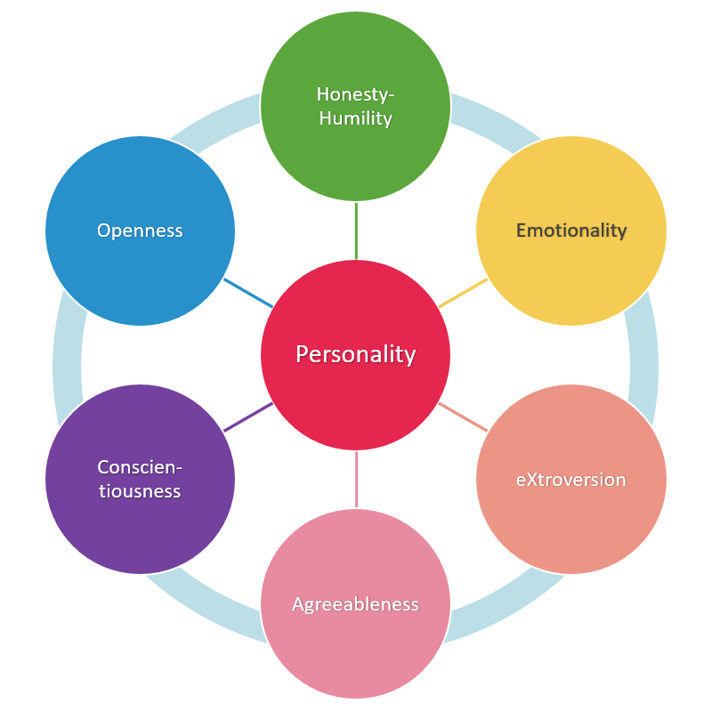 HEXACO is an adapted form of the five-factor model, also known as the "big five" model.